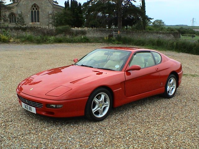 David Hanley, car owner